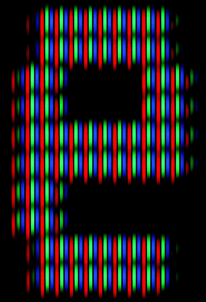 A 25" aperture-grille based television monitor (Sony KV-25FX20D) in close-up, showing the letter "e" from a teletext page. When displayed on a 15" monitor set to its optimum resolution (1024x768 pixels), the final photo has a magnification of about 40x. Photo taken with a Canon Powershot A95 camera and some additional equipment (a Pentax K mount 50 mm f:1.7 lens and a simple convex lens taken off a magnifying glass) to achieve the magnification.